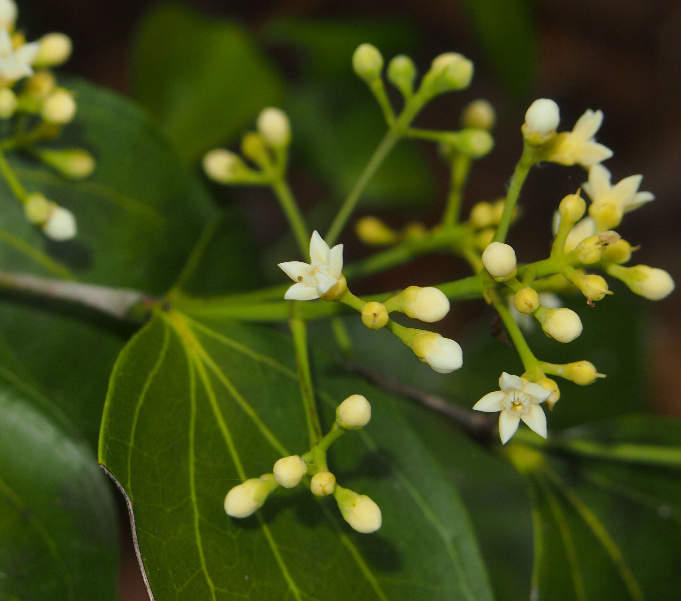 Strychnos psilosperma flower